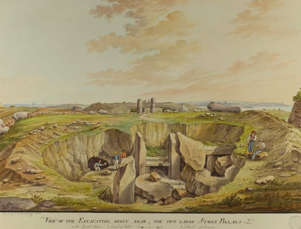 Aquarelle représentant les fouilles de l'hypogée de Xaghra en 1825 This media is about Maltese cultural property with inventory number 26.